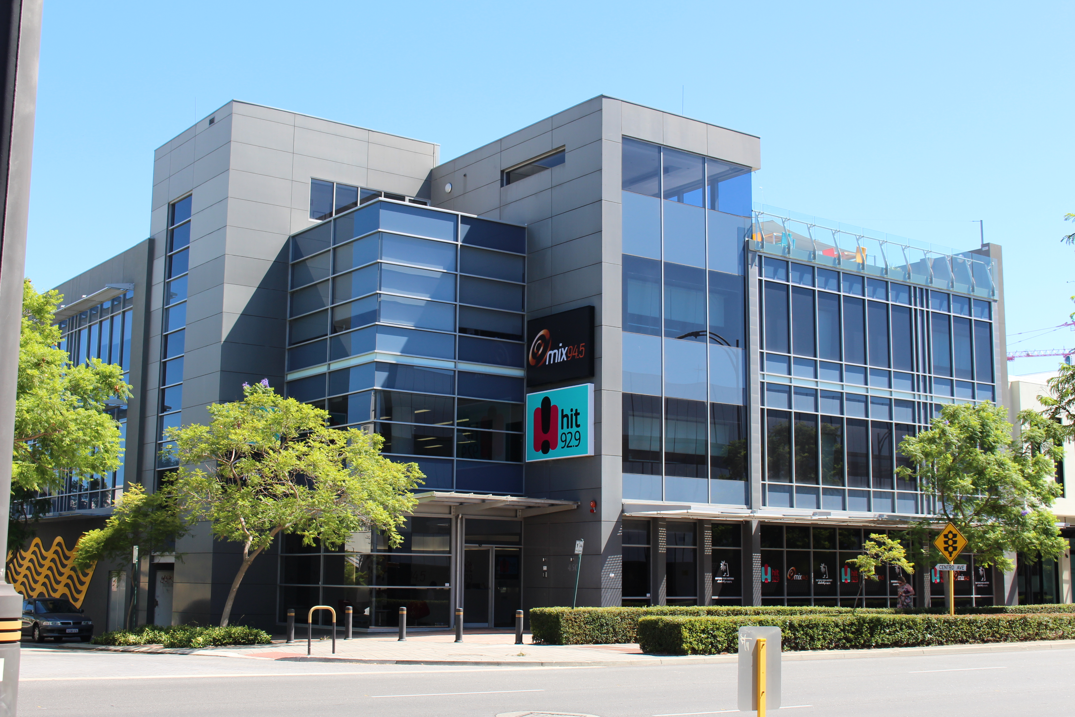 Southern Cross Austereo building at 450 Roberts Rd, Subiaco, Western Australia housing the radio stations HIT 92.9 and Mix 94.5